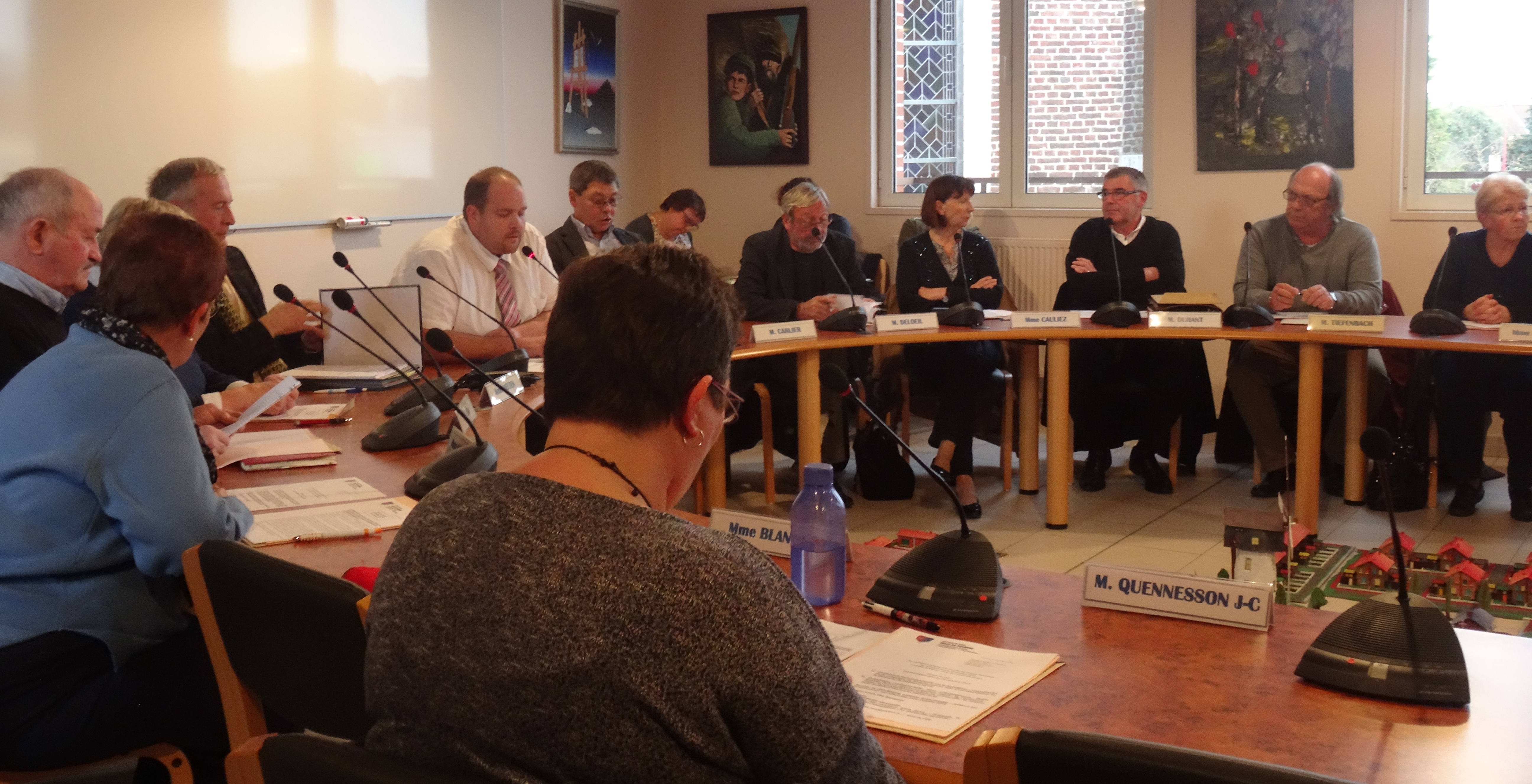 Depicted place: Q63197159 Depicted people: Julien Quennesson and Jules Carlier